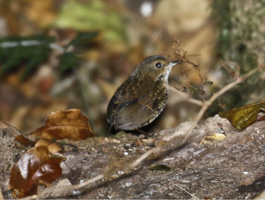 Doi Inthanon National Park - Thailand